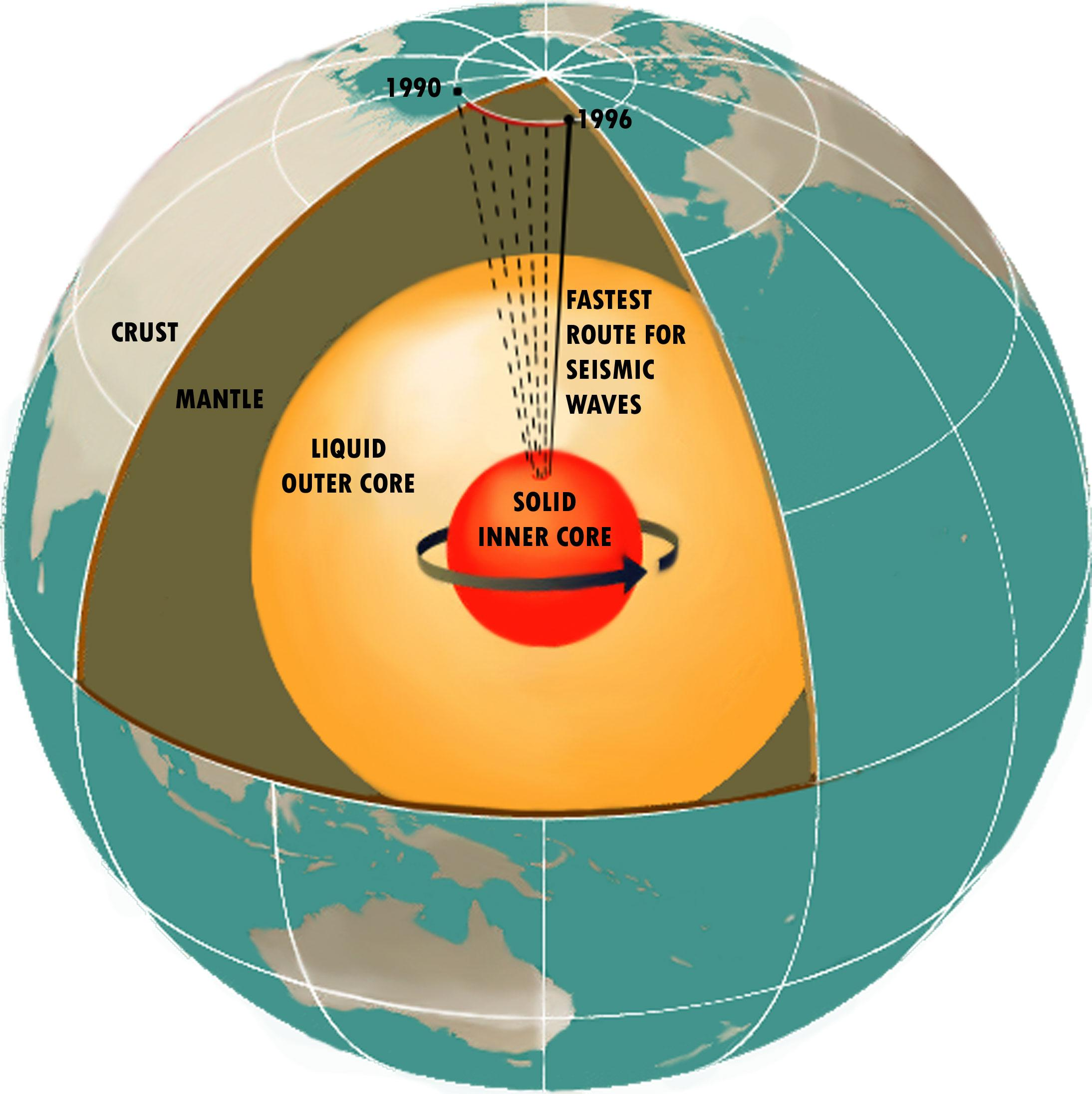 A cut-away illustration of Earth's interior with inner core and outer core. The change in the magnetic field is also plotted from 1900 to 1996.